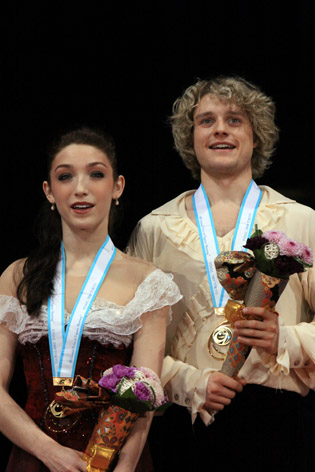 2009 Grand Prix of Figure Skating Final - Meryl Davis and Charlie White